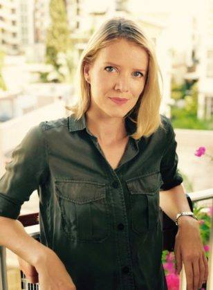 My head shot